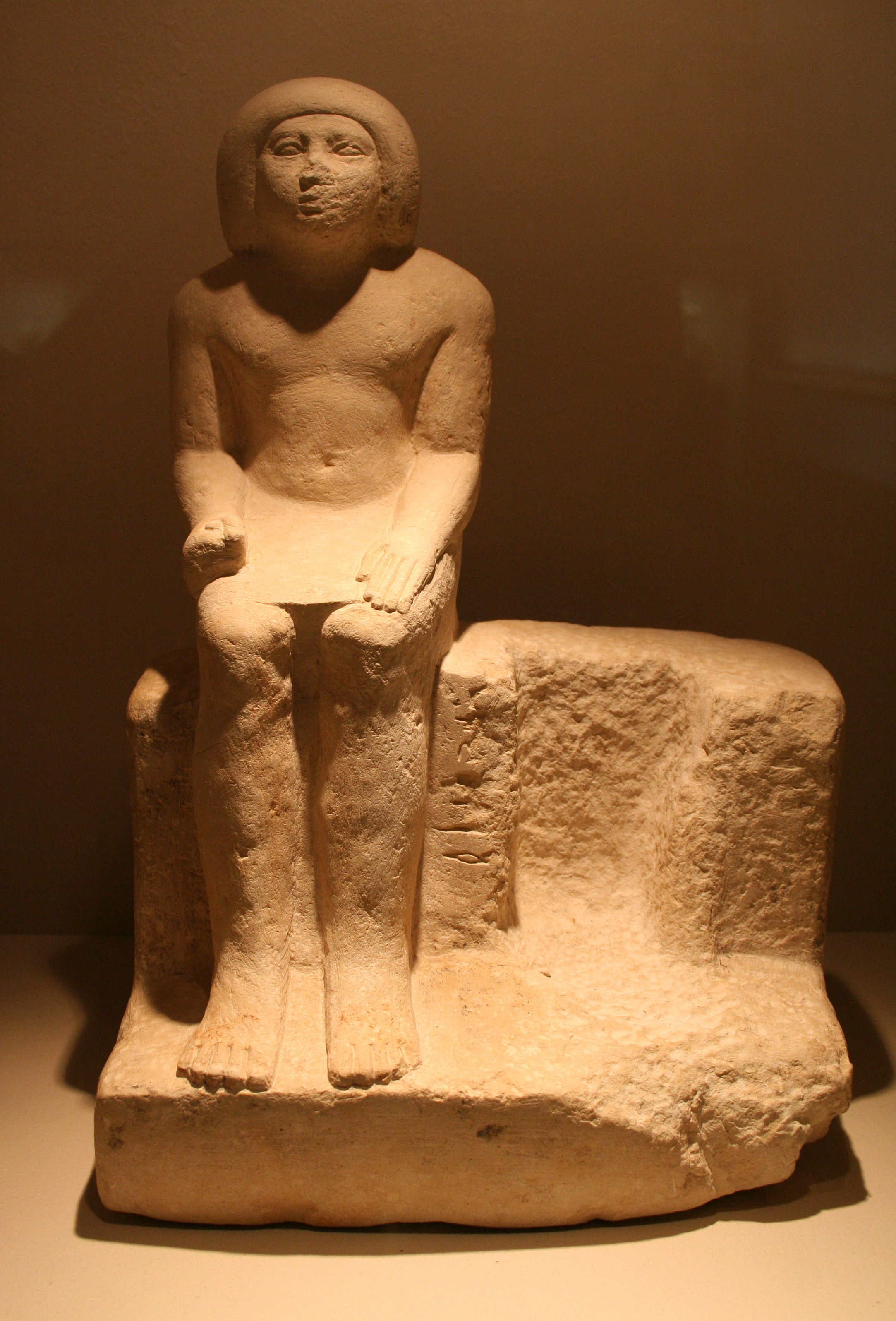 Statue of Senefer with subsequently removed depiction of his wife, Gizeh, 6th dynasty, Roemer- und Pelizaeus-Museum, Hildesheim